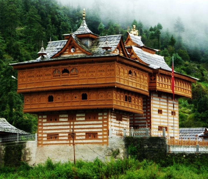 Photo taken on visit by self